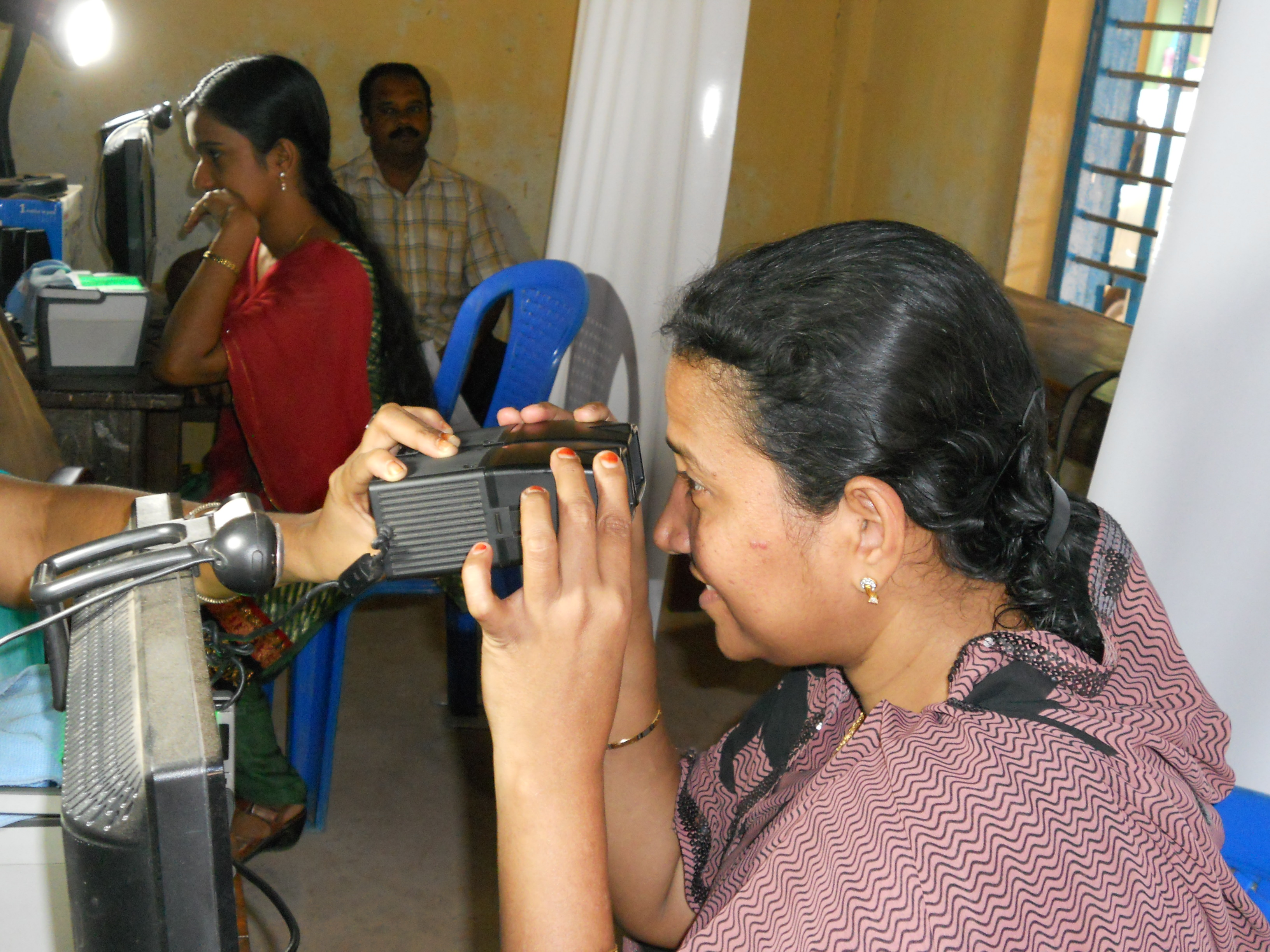 collecting image of iris for Aadhaar,a 12-digit unique number which the Unique Identification Authority of India (UIDAI) will issue for all residents in India.The number will be stored in a centralized database and linked to the basic demographics and biometric information – photograph, ten fingerprints and iris of each individual.